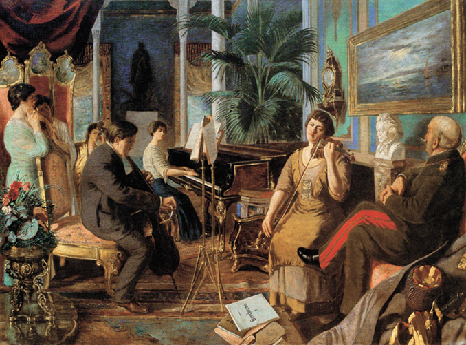 A painting by Abdulmecid (29 May 1868 – 23 August 1944) depicting his Circassian wife Şehsuvar Kadınefendi playing violin, Hatice (also known as lady Ophelia) playing piano, and his son Ömer Faruk plays cello as other two women, one of whom may be his third wife Mehisti, listen with rapt attention at his summer palace in Bağlarbaşı, given to him in 1895.